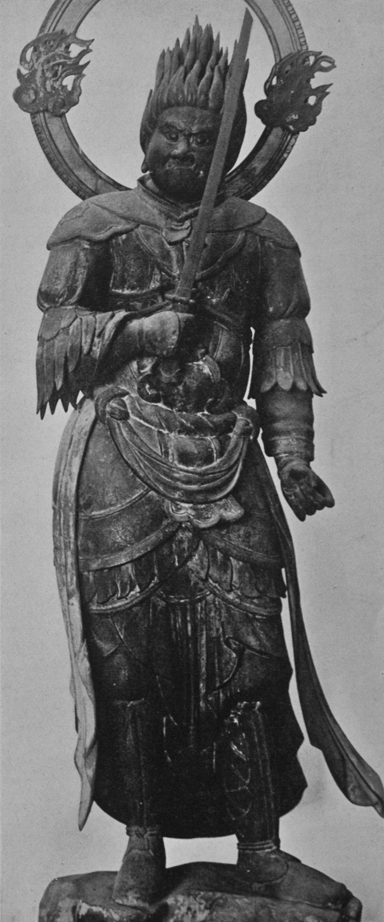 Santera of the Twelve Heavenly Generals, Koryuji, Kyoto, Japan